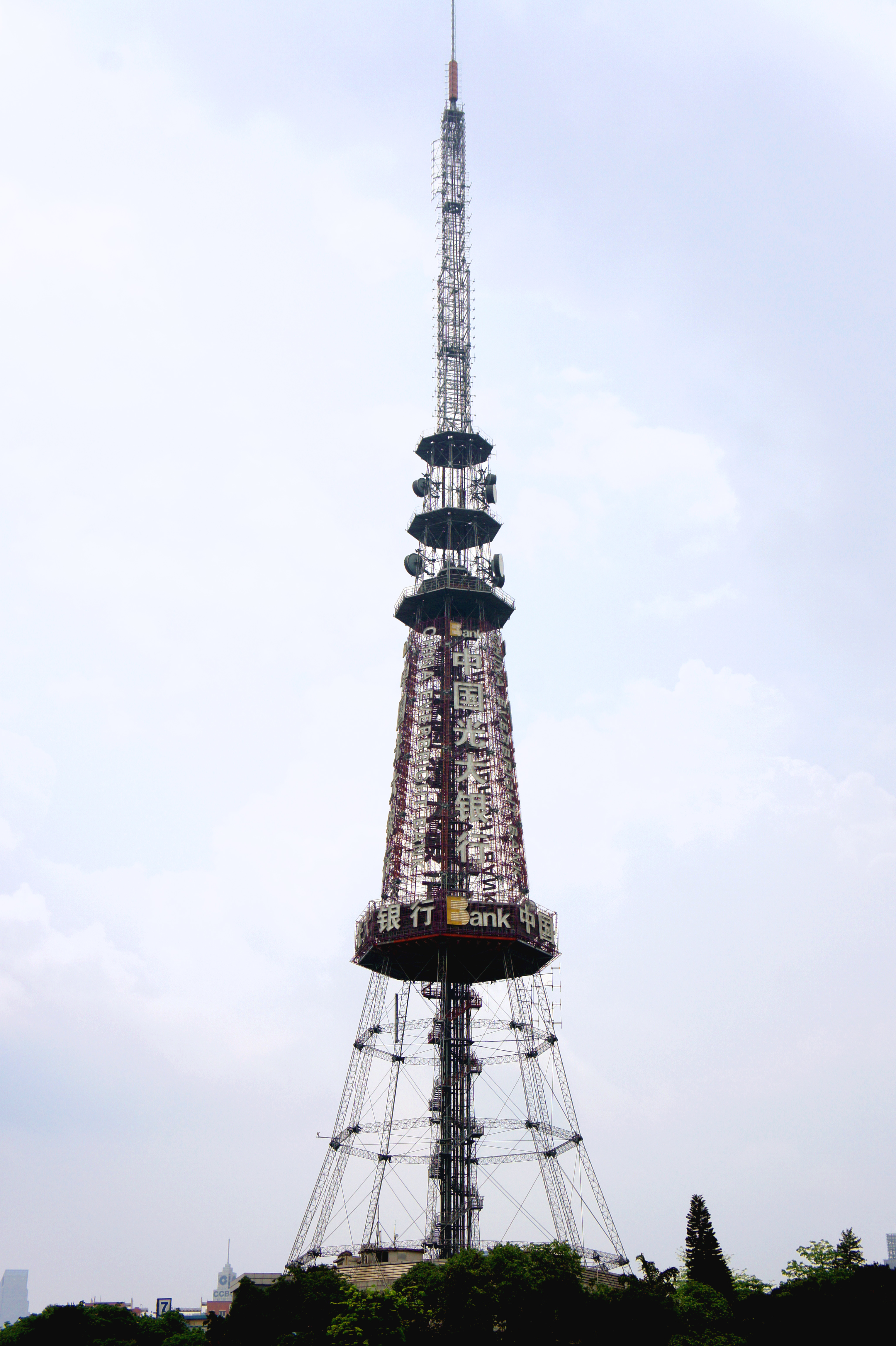 Guangdong TV Tower, Guangzhou China.